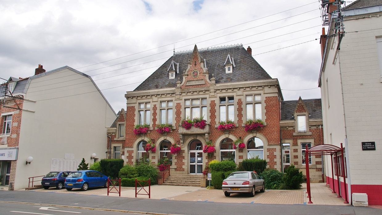 Hotel-de-Ville